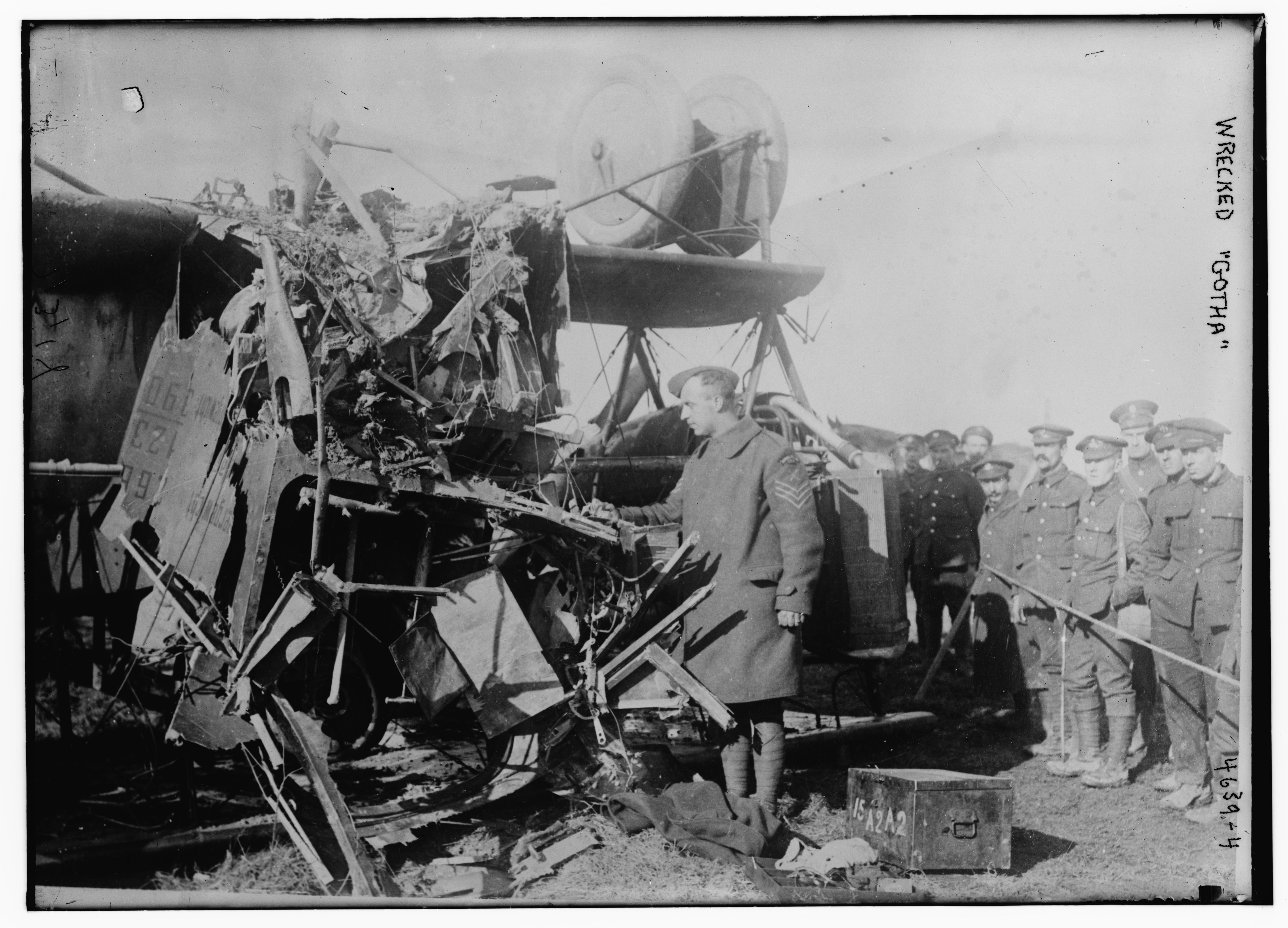 Title: Wrecked GOTHA Abstract/medium: 1 negative : glass ; 5 x 7 in. or smaller.